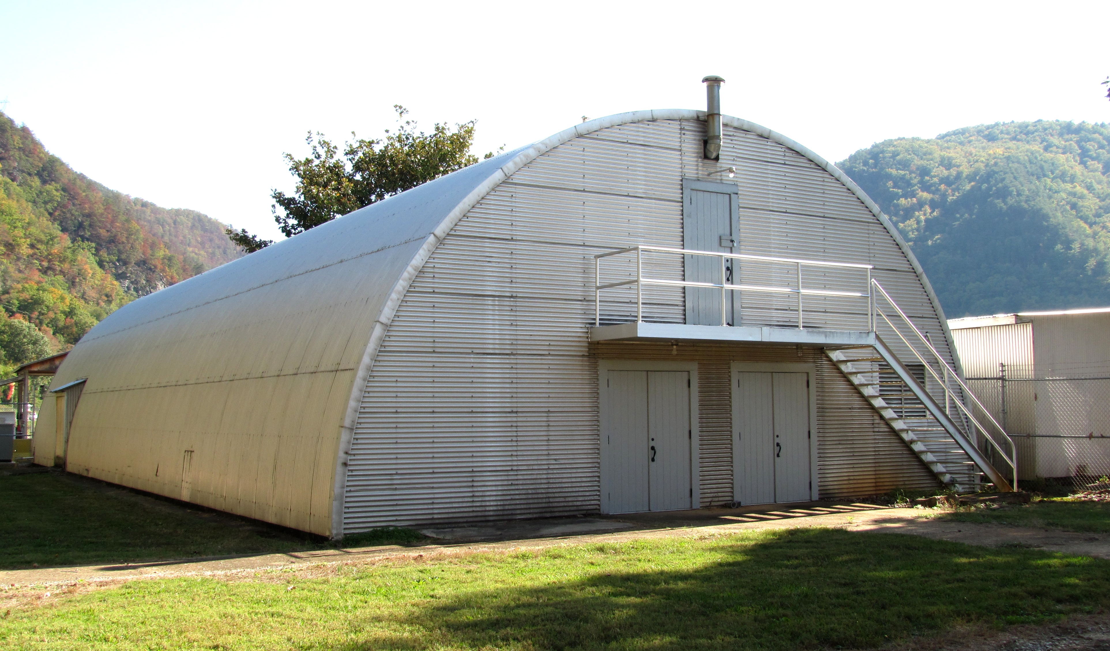 Quonset hut at Calderwood, Tennessee, USA. This hut was installed in the Calderwood community for use as a theater in 1950s, and is now a contributing structure within the NRHP-listed Calderwood Hydroelectric Development Historic District.